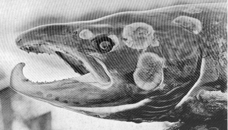 Male grilse (Salmo salar) showing fungus partly developed on head